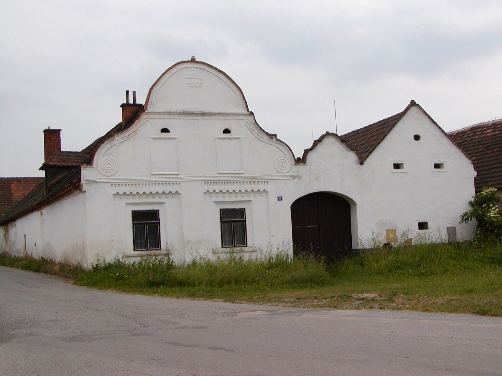 House No 55 in Hracholusky, Prachatice District, South Bohemian Region, Czech Republic.